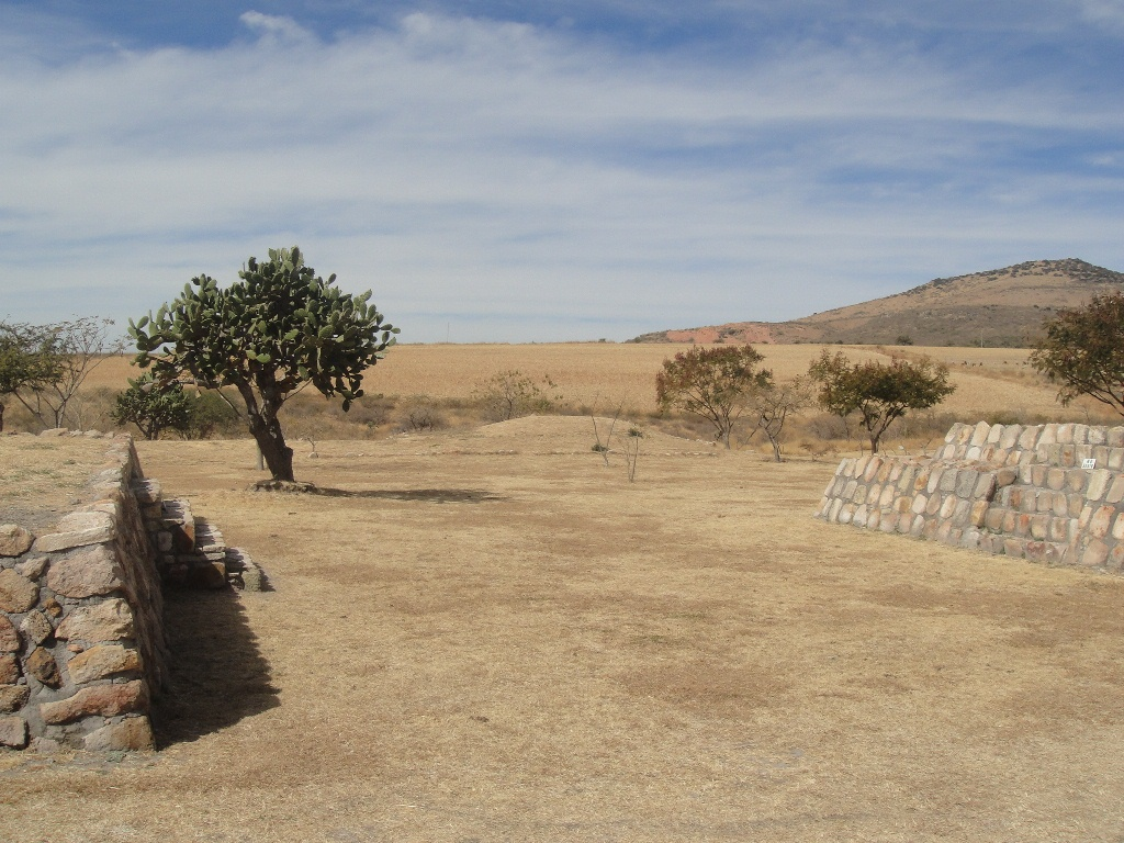 Template:Plazuelas structures west of ballgame court